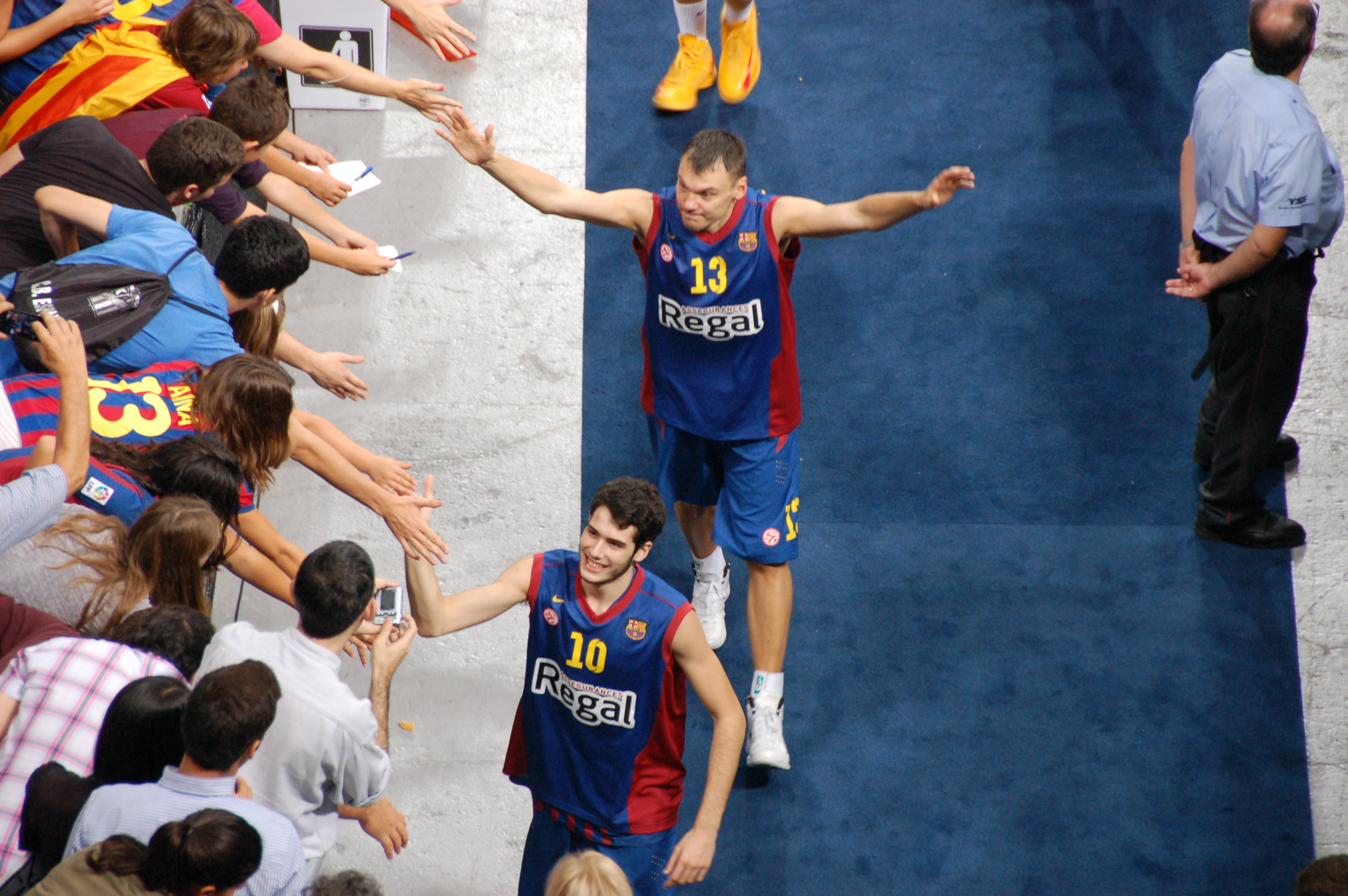 Photo of Šarūnas Jasikevičius and Alex Abrines as a Barcelona members.